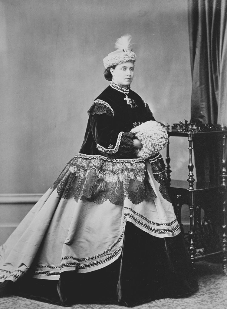 Victoria, Princess Royal of the United Kingdom. Later married Frederick III, German Emperor, and later became known as Empress Frederick after his death.